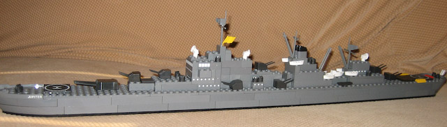 Tente built warship